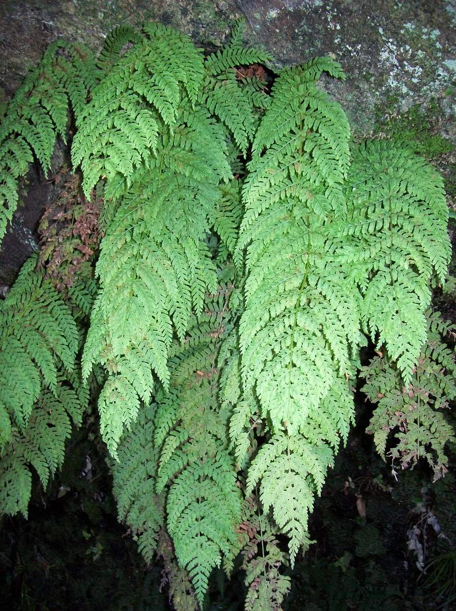 cave fern at Leura, 880 metres above sea level. Likely to be Leptopteris fraseri.